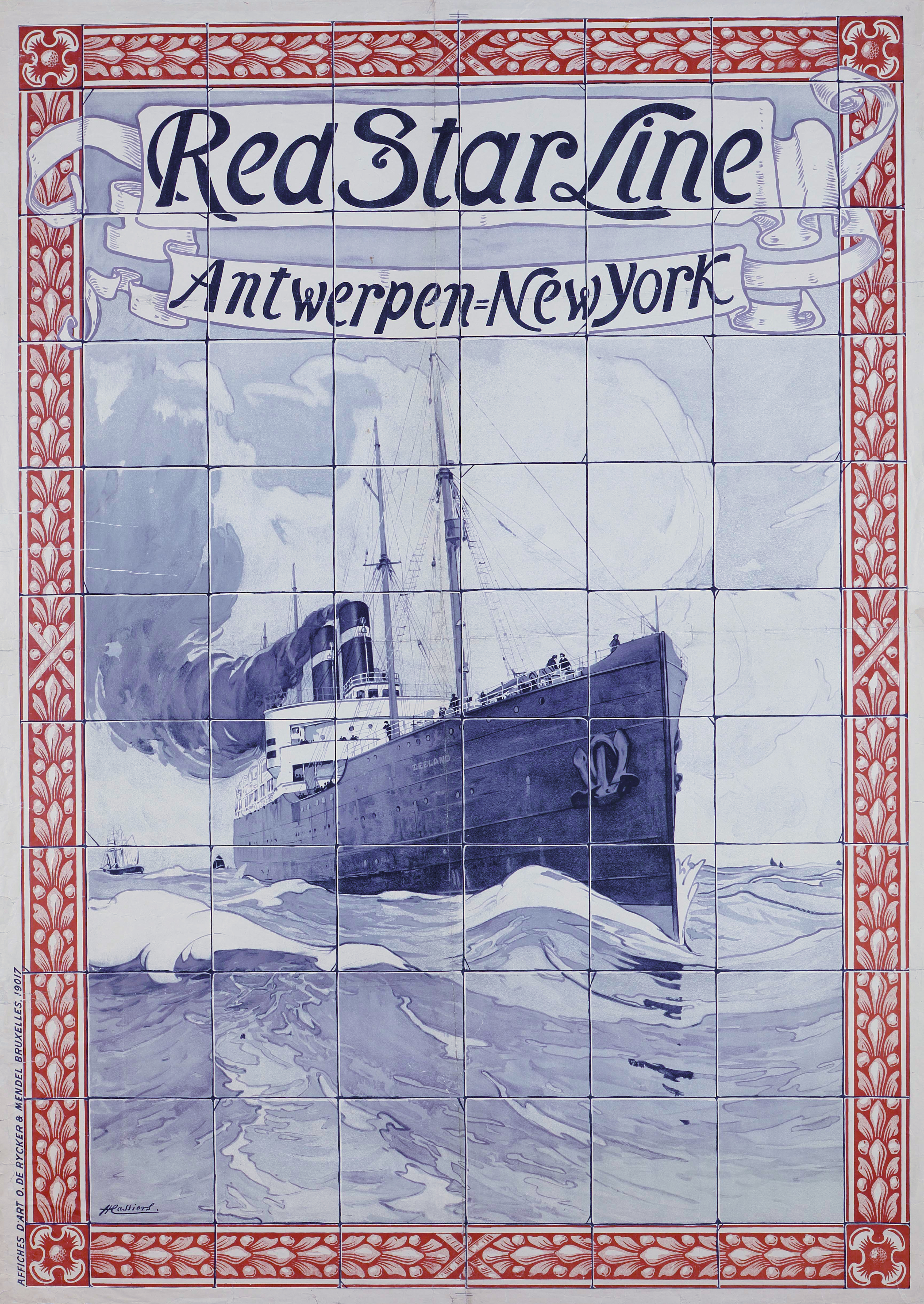 Red Star Line Antwerpen - New York 1901